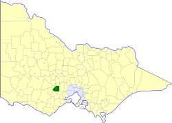 Location of the former Shire of Buninyong within Victoria.